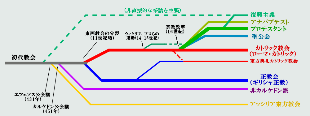 ChristianityBranches-2.svg's Japanese version (png).